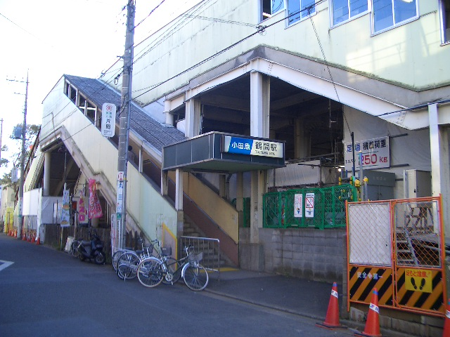 Tsuruma Station east exit, on the Odakyu Enoshima Line, Yamato, Kanagawa 鶴間駅